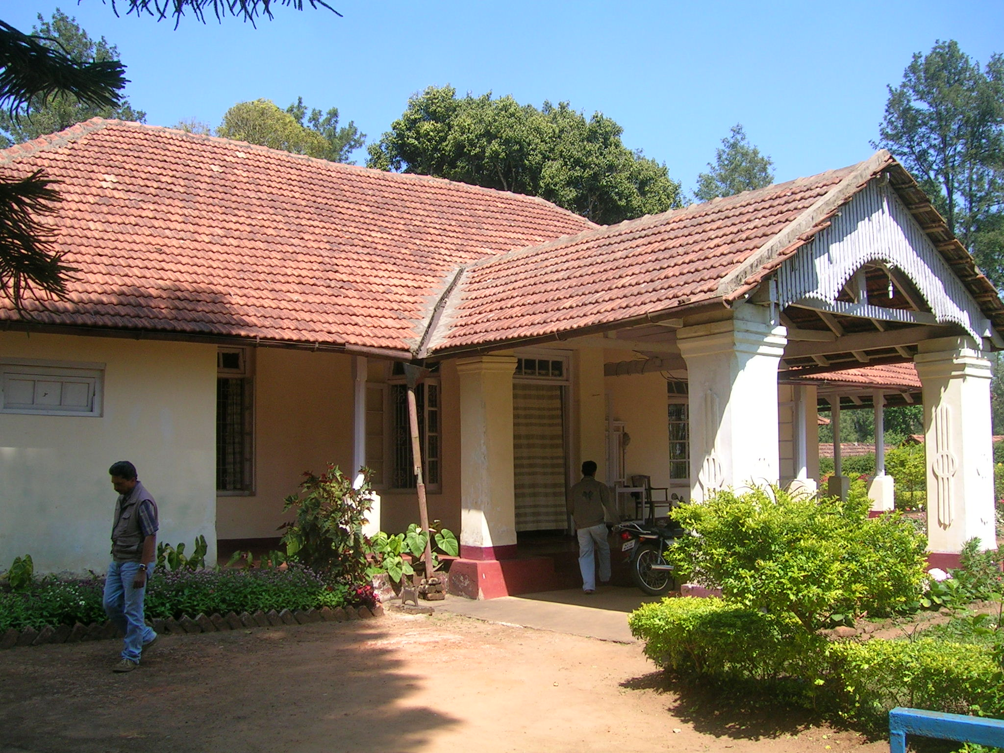 Kalbane bungalow, Yemmegundi Estate, Kodagu, India